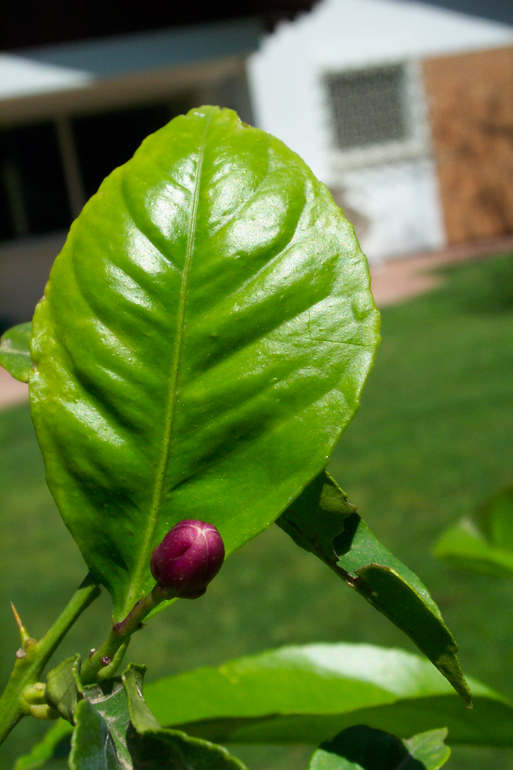 Leaves